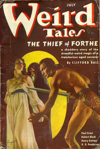 Cover of the pulp magazine Weird Tales (July 1937, vol. 30, no. 1) featuring The Thief of Forthe by Clifford Ball. Cover art by Virgil Finlay.